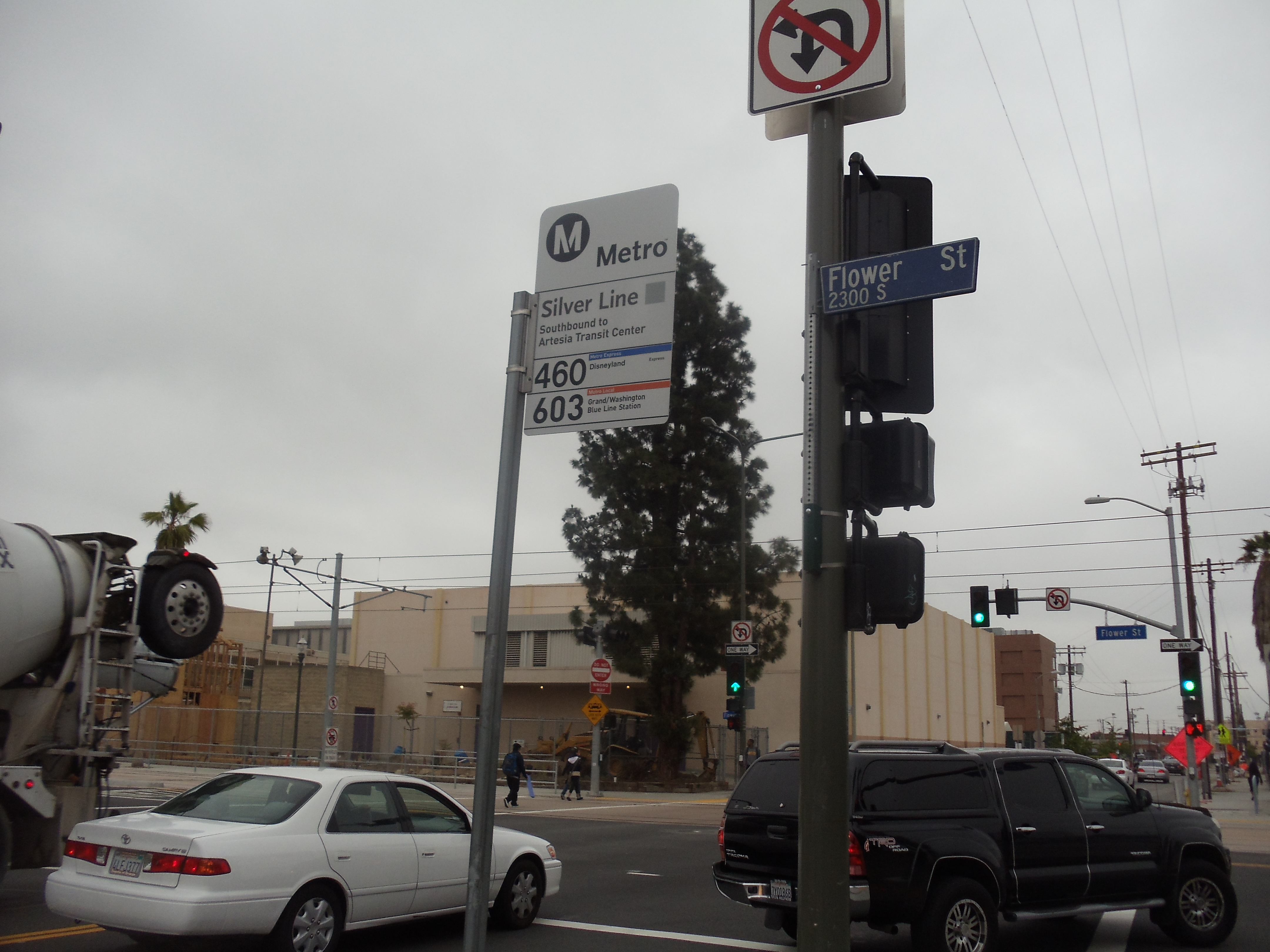 23 Street Station, Metro Silver Line street stop. The street stop was added on April 30, 2012.